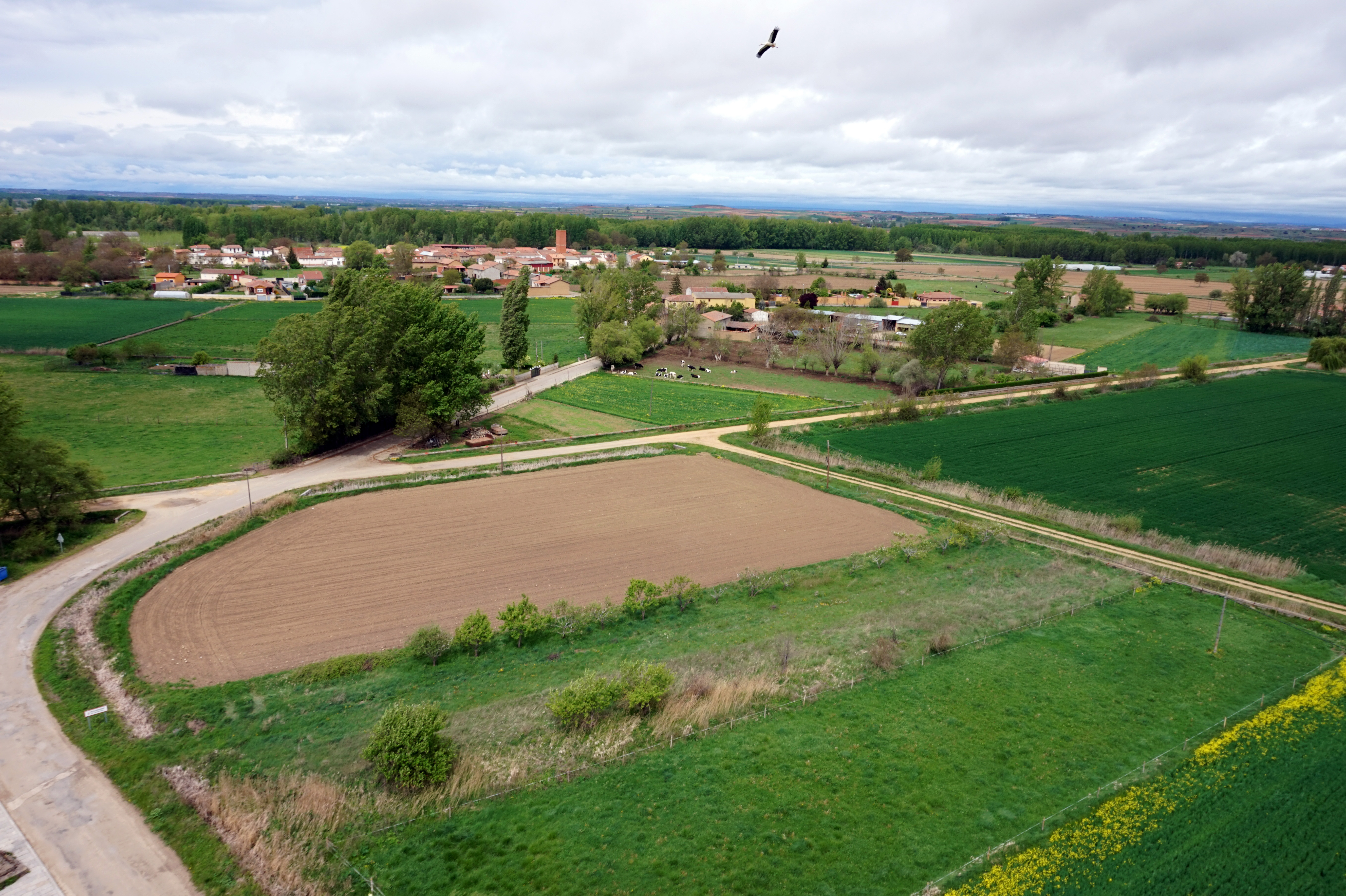 Aerial view of Villaverde de Sandoval, Mansilla Mayor (León, Spain). Photo taken by Smart Drone with a drone.